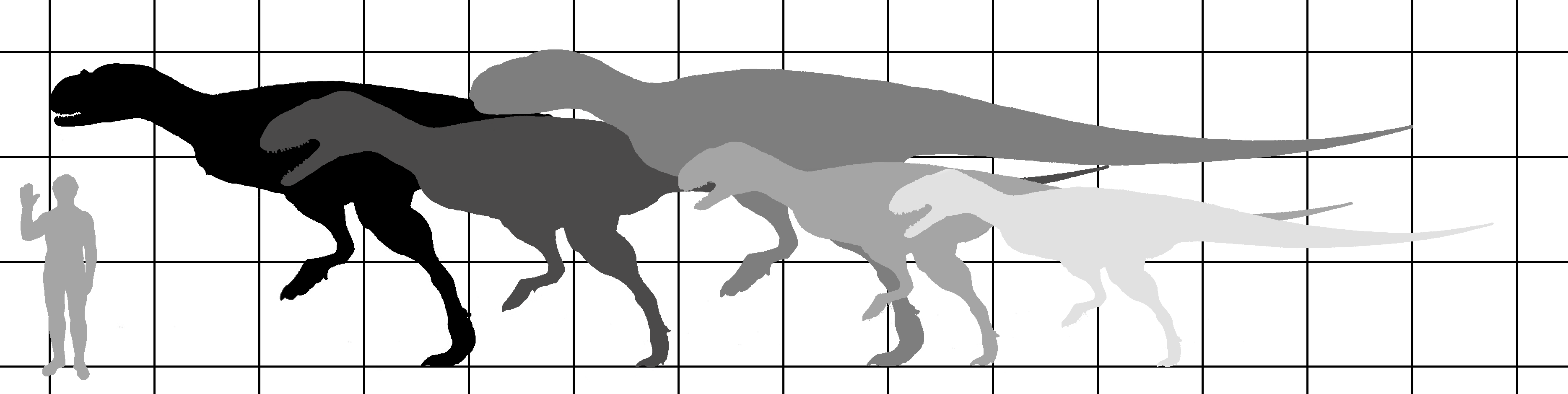 Size comparison of the Carnotaurins (left to right) Carnotaurus, Abelisaurus, Pycnonemosaurus, Aucasaurus and Quilmesaurus. Basis for all skeletons is Carnotaurus skeletal by Jaime Headden (on commons) with modified proportions and heads to fit other taxa.